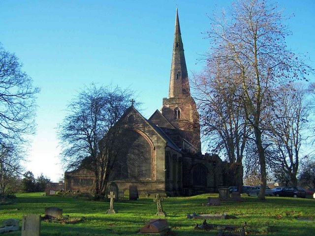 St. Michael's Church , Lichfield